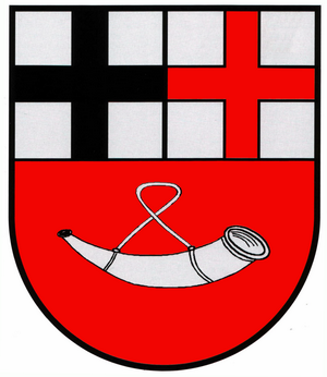 Coat of arms of Blankenrath